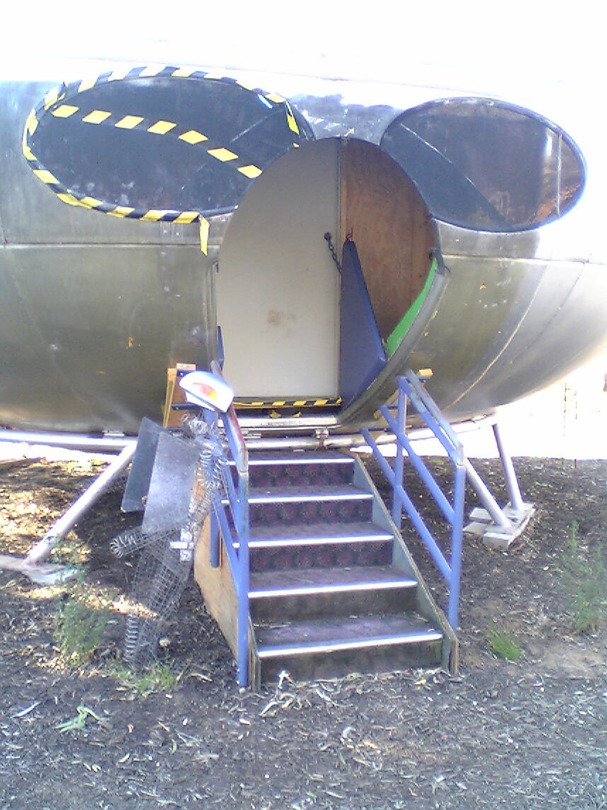 Portal of Futuro House — at the University of Canberra. Closeup of the entry stairs and doorway of the Futuro House, previously at the the Canberra Planetarium and Observatory, moved to the University of Canberra in 2010 to be restored by conservation students.